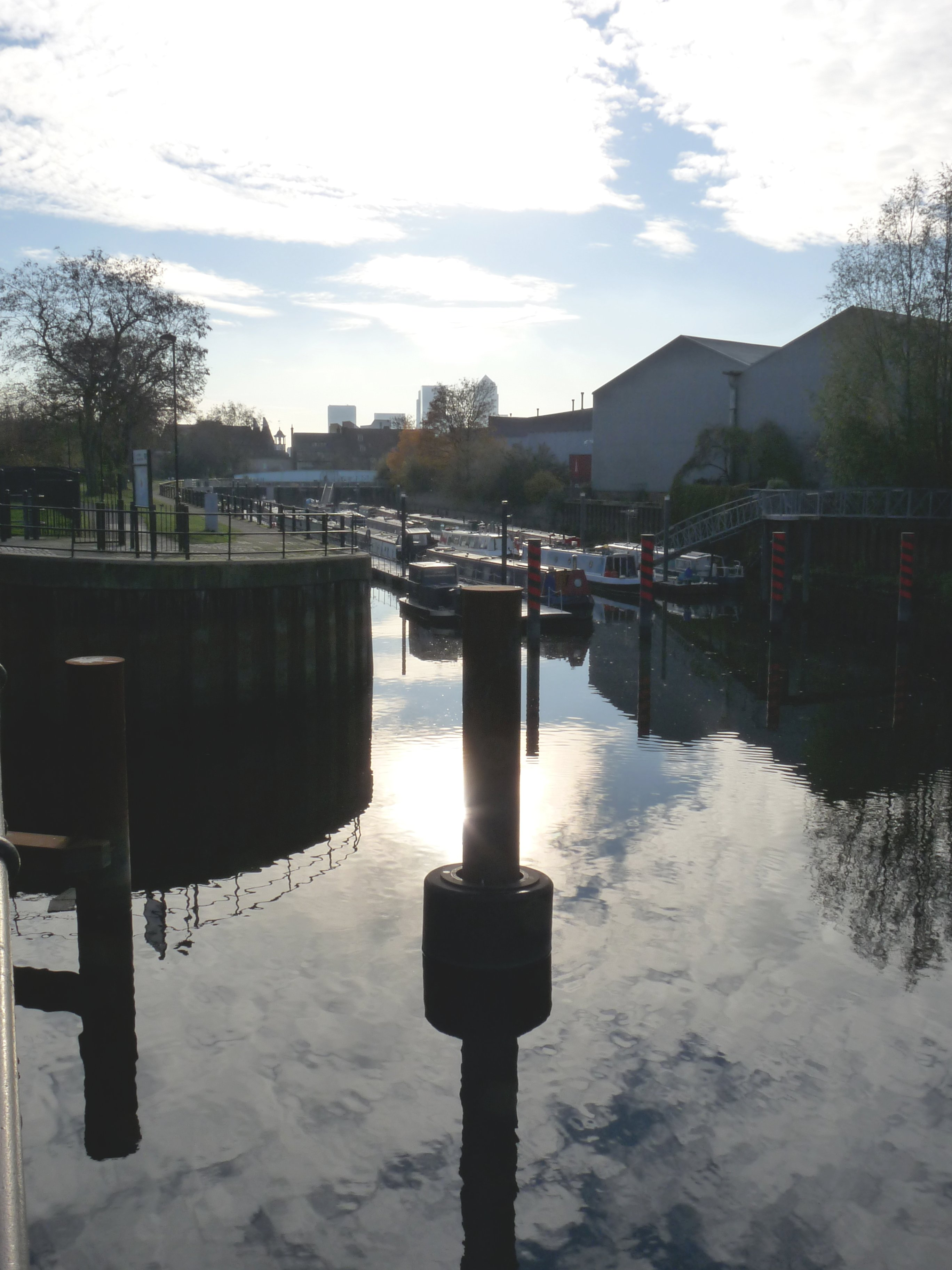 Three Mills moorings at Shortwall (Three Mills Wall River), East London